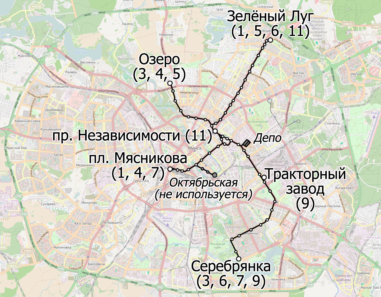 Tram map of Minsk (Belarus), November 2018